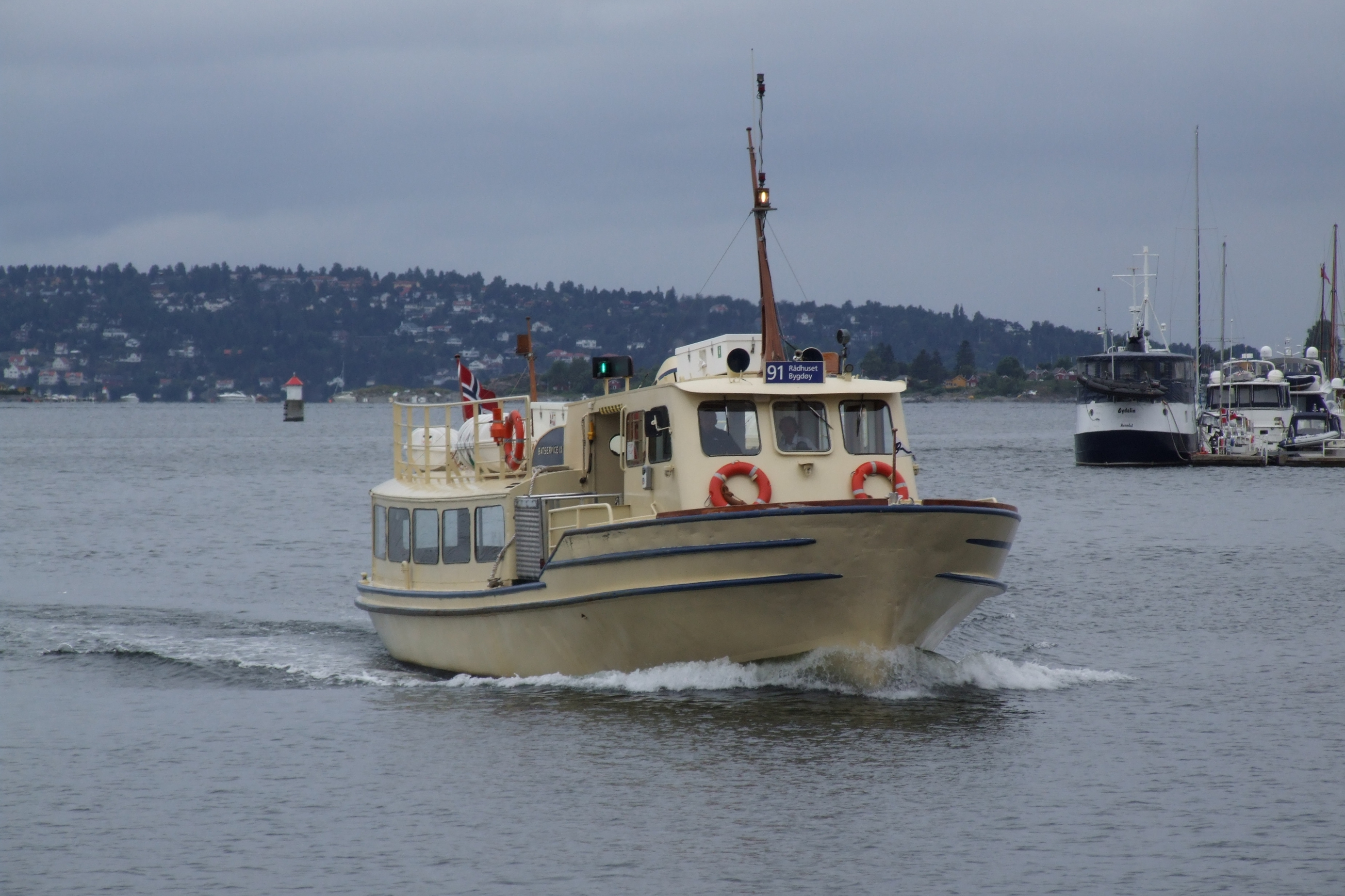 Water taxi in Oslo - line 91: city hall - Bygdøy.